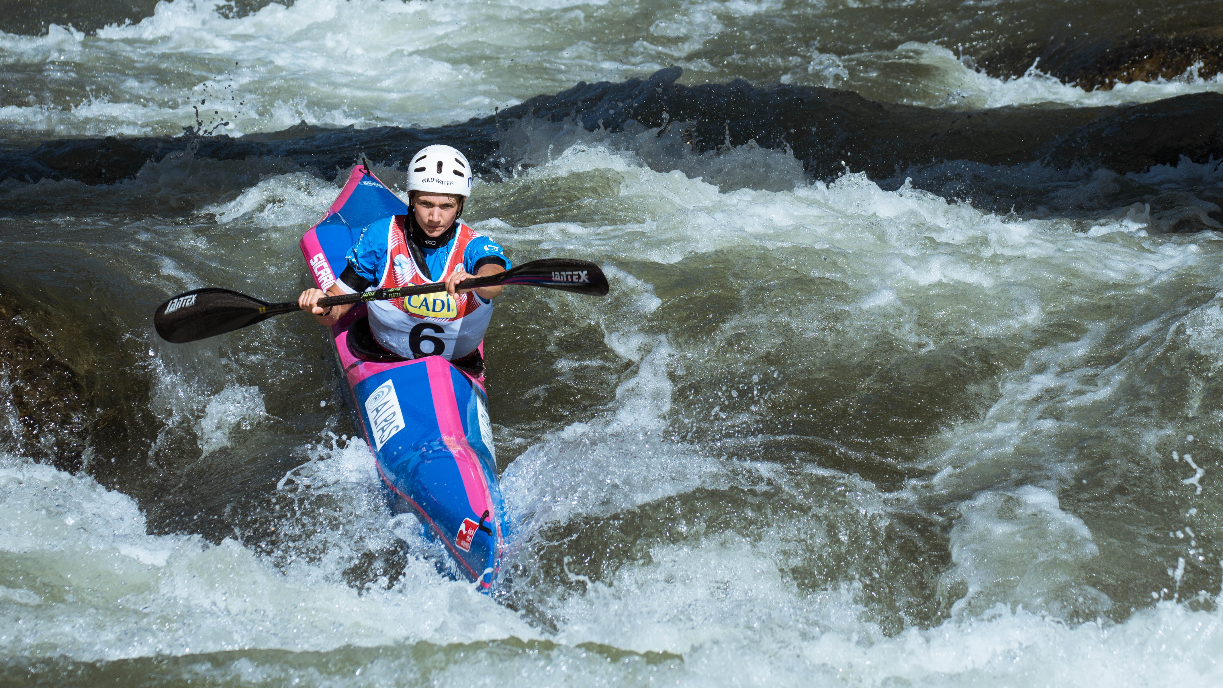 Giulia Formenton during the 2019 Canoe Wildwater World Championships in La Seu d'Urgell, Spain.